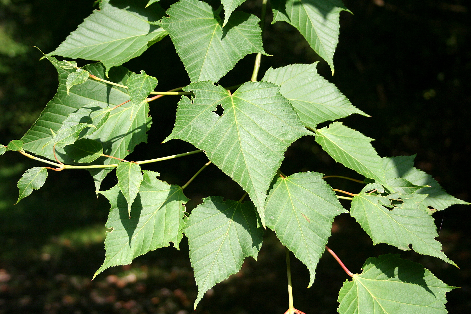 Kyushu Maple or Red Snakebark Maple leaves.